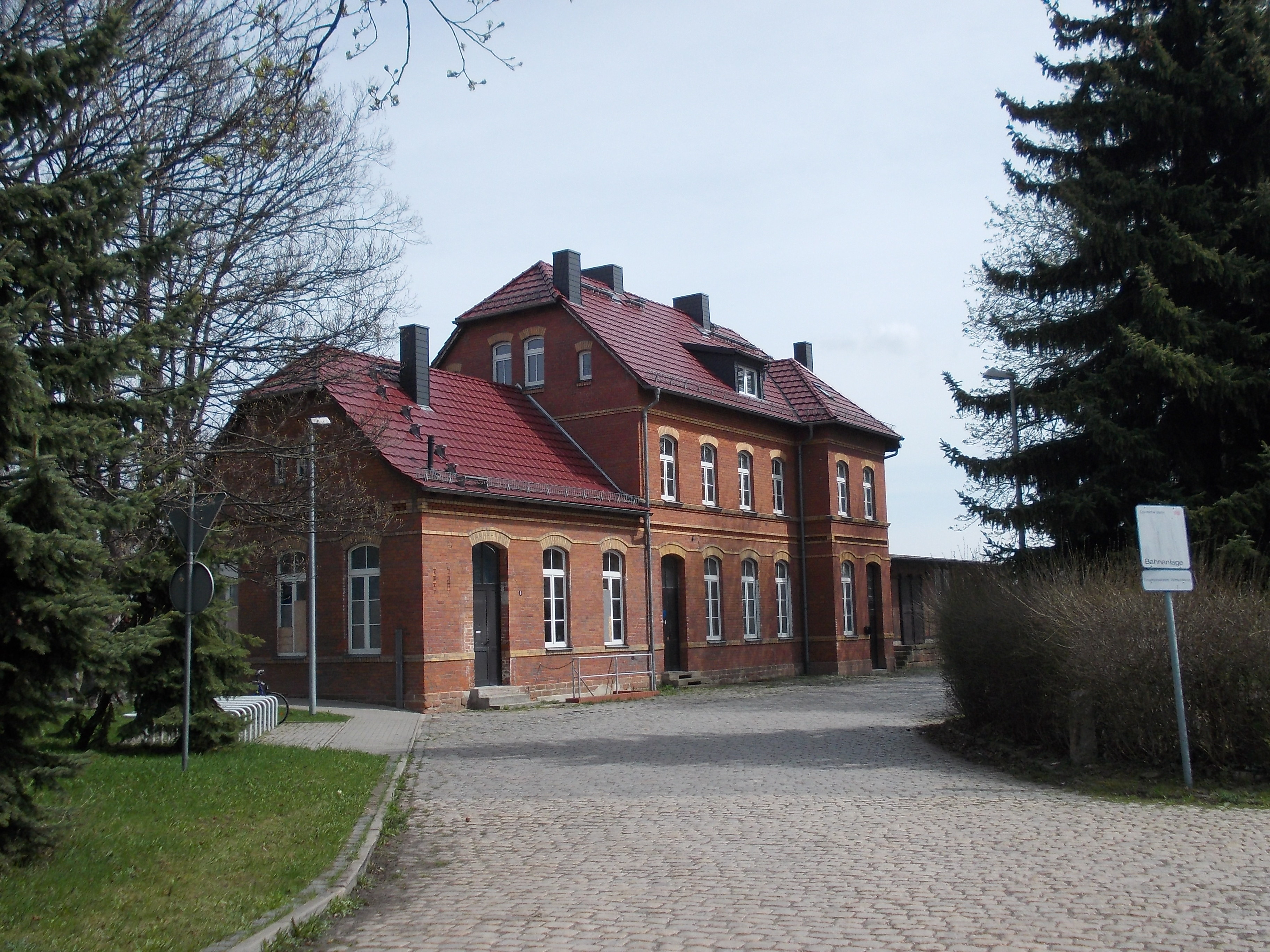 Bad Lauchstädt train station (district of Saalekreis, Saxony-Anhalt)